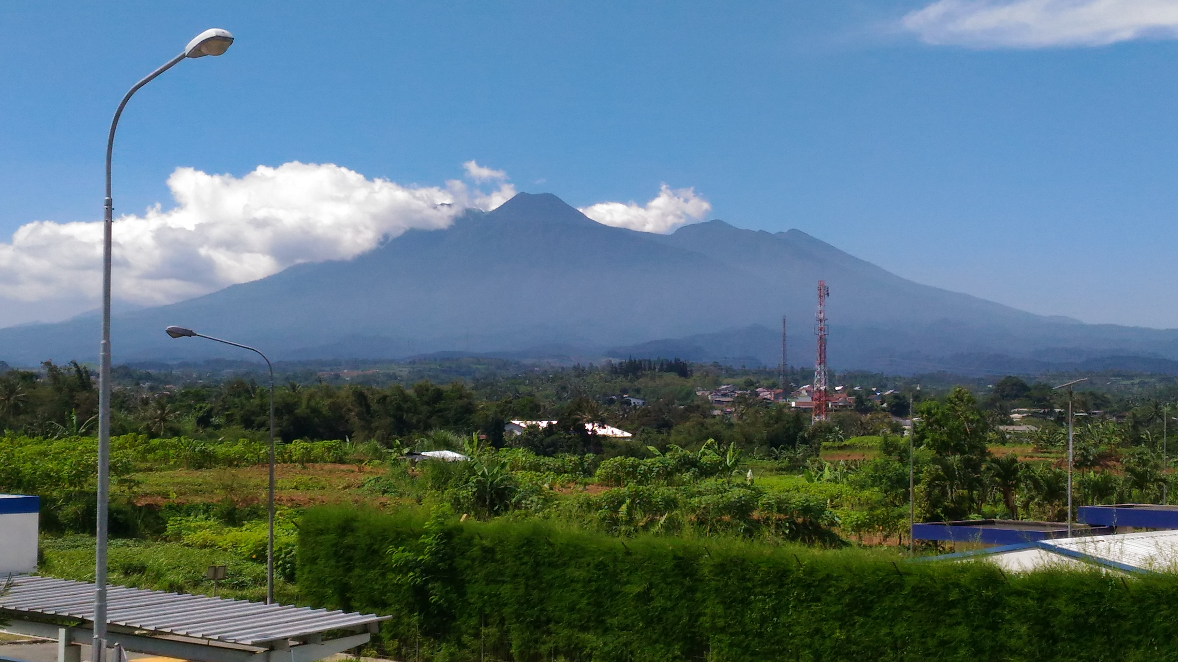 View of Gunung Gede from Cicurug, Sukabumi